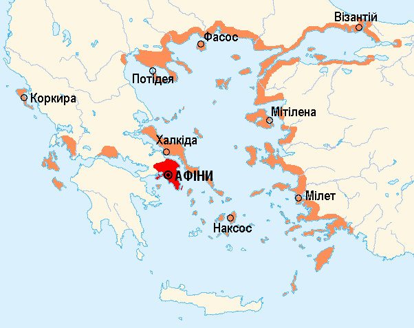 First Athenian League at 431 BC (ukrainian)